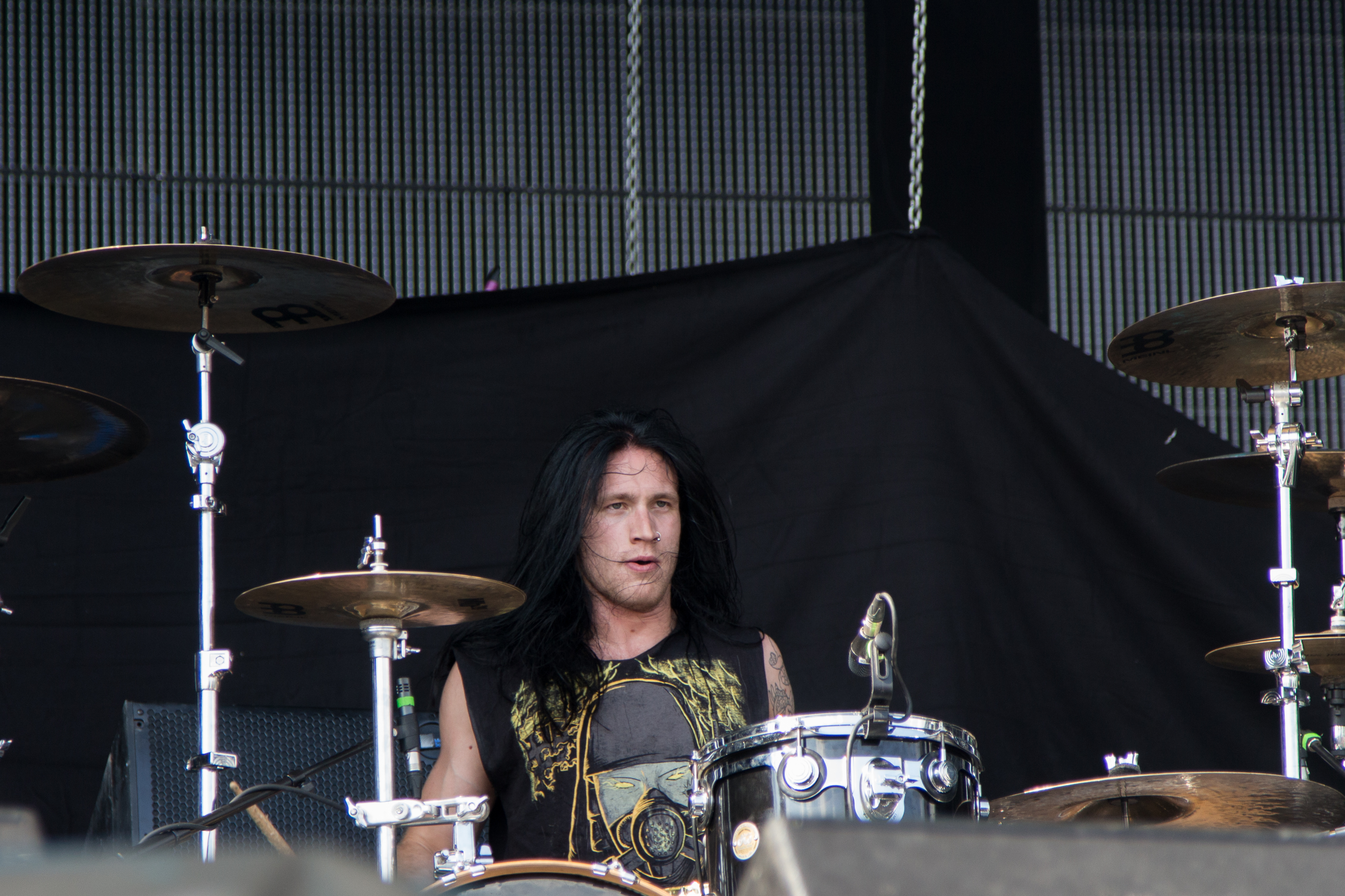 Hannes Van Dahl from Sabaton at the See-Rock Festival 2014